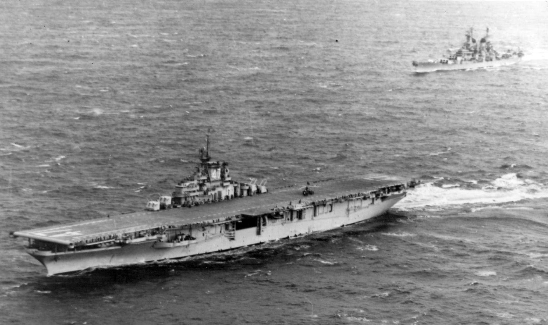 The U.S. Navy aircraft carrier USS Philippine Sea (CV-47) underway with the battleship USS Wisconsin (BB-64) in the Arctic Circle during cold weather operations.